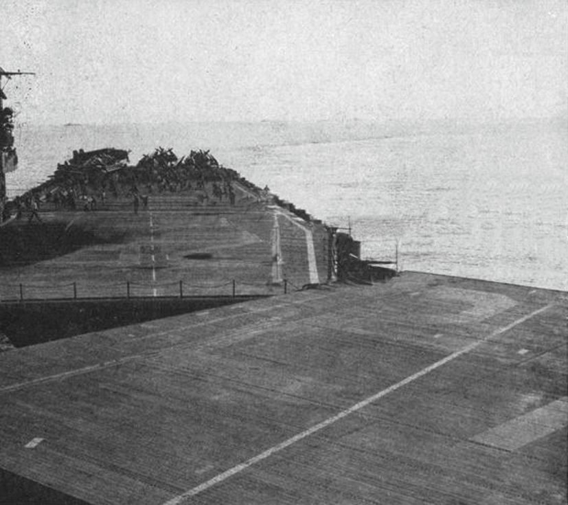 View of a collision of the U.S. Navy escort carriers USS Sangamon (CVE-26) and USS Suwannee (CVE-27) on 26 January 1944. Having completed fueling two destroyers, Sangamon resumed zigzagging and commenced a 40-degree turn to port. Suwannee, about 1700 meters off the Sangamon's port side, started a starboard turn to conducting flight operations. When the ships began to run on converging courses, both carriers tried to slow. As they alomost lost all speed, they scraped bow to bow and only superficial damage occured.